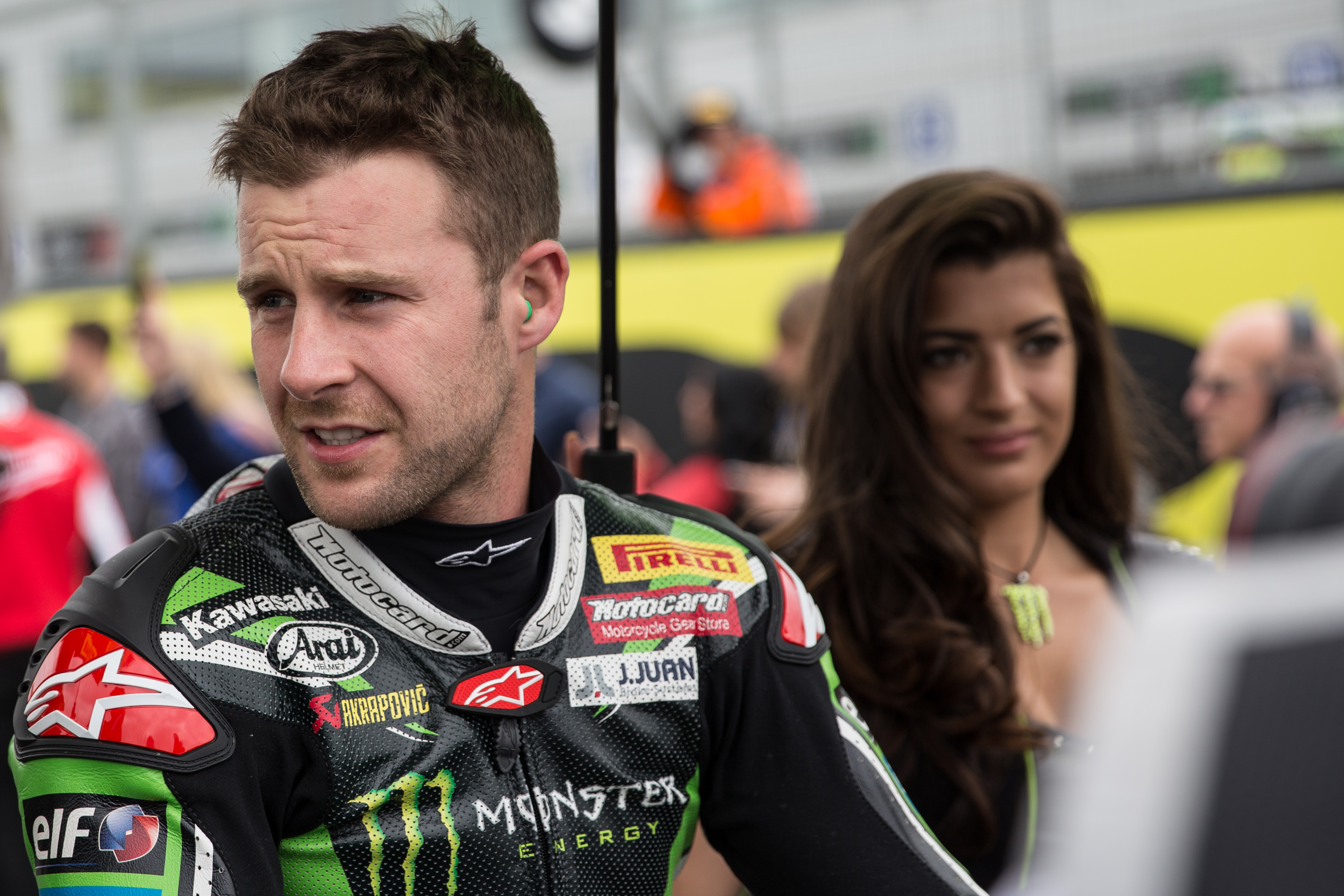 Jonathan Rea on the World Superbike grid, Donington 2016.